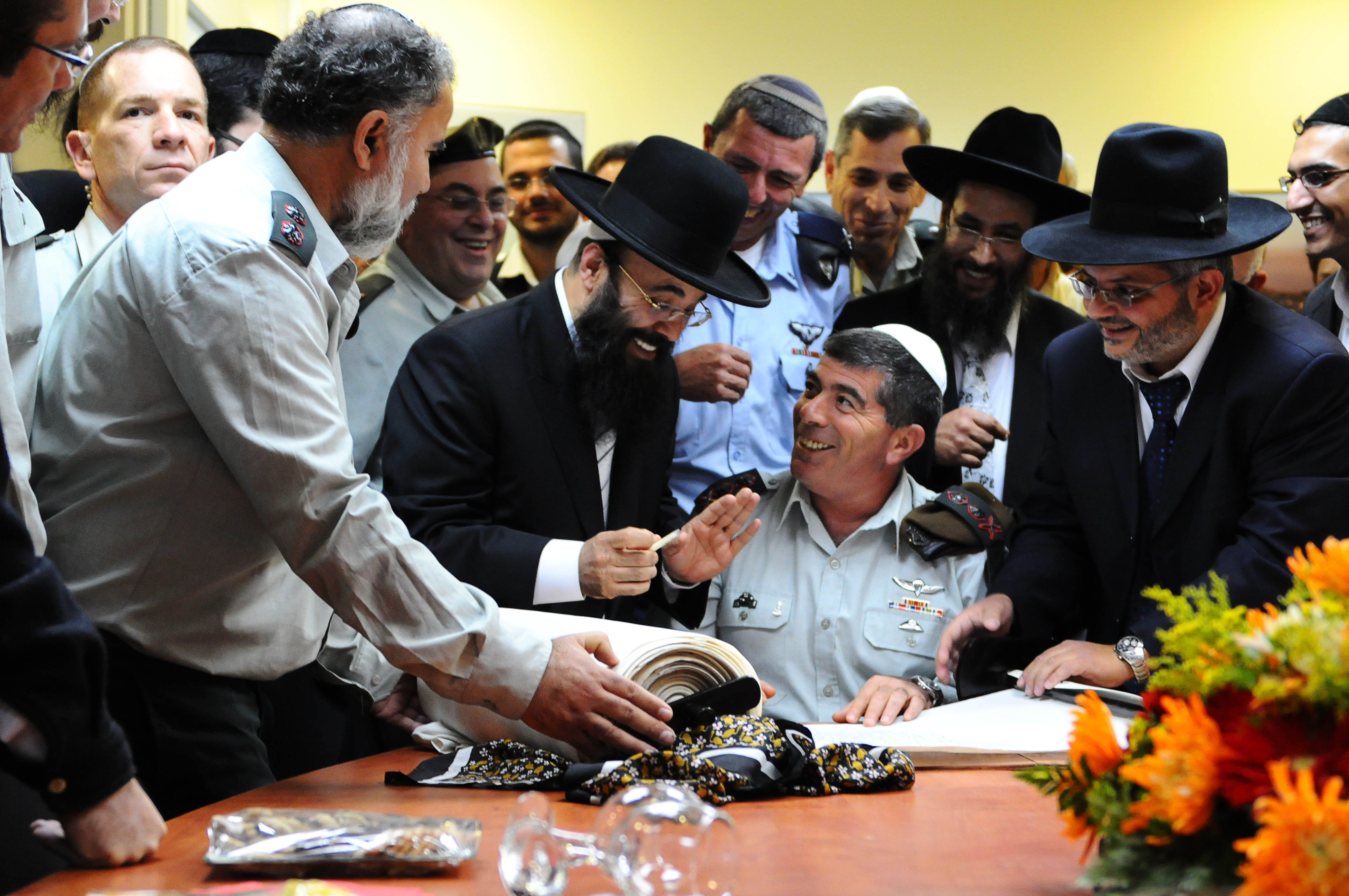 December 28, 2010. The Torah Scroll dedicated to the welfare of all missing or kidnapped IDF soldiers was introduced into the Military Synagogue at the Rabin Base in Tel-Aviv on Tuesday. The ceremony was held in the presence of the Chief of the General Staff, Lt. Gen. Gabi Ashkenazi, senior IDF officers, and Rabbi Yaakov Israel Ifergan. Family members of missing or kidnapped IDF soldiers were also present during the ceremony. Pictured: Noam Shalit, the father of Gilad Shalit - an IDF soldier who had been kidnapped in 2006 and is still held hostage in the Gaza Strip - walks with the Torah Scroll into the Military Synagogue. Pictured: Lt. Gen. Ashkenazi, the Chief Military Rabbi, Brig. Gen. Rafi Peretz, senior IDF officers, and Rabbi Yaakov Israel Ifergan, writing in the last letters of the Torah Scroll. ספר תורה לשלומם של חיילי צה"ל החטופים והנעדרים הוכנס היום (ג') לבית הכנסת במחנה רבין בתל אביב במעמד הרמטכ"ל, רב אלוף גבי אשכנזי ואלופי צה"ל ובהשתתפות כבוד הרב יעקב ישראל איפרגאן (הרנטגן). בטקס המרגש נכחו נציגי משפחות חיילי צה"ל השבויים והנעדרים. בתמונה: רב אלוף אשכנזי, אלופי המטכ"ל והרב איפרגאן במעמד כתיבת האותיות האחרונות בספר התורה.